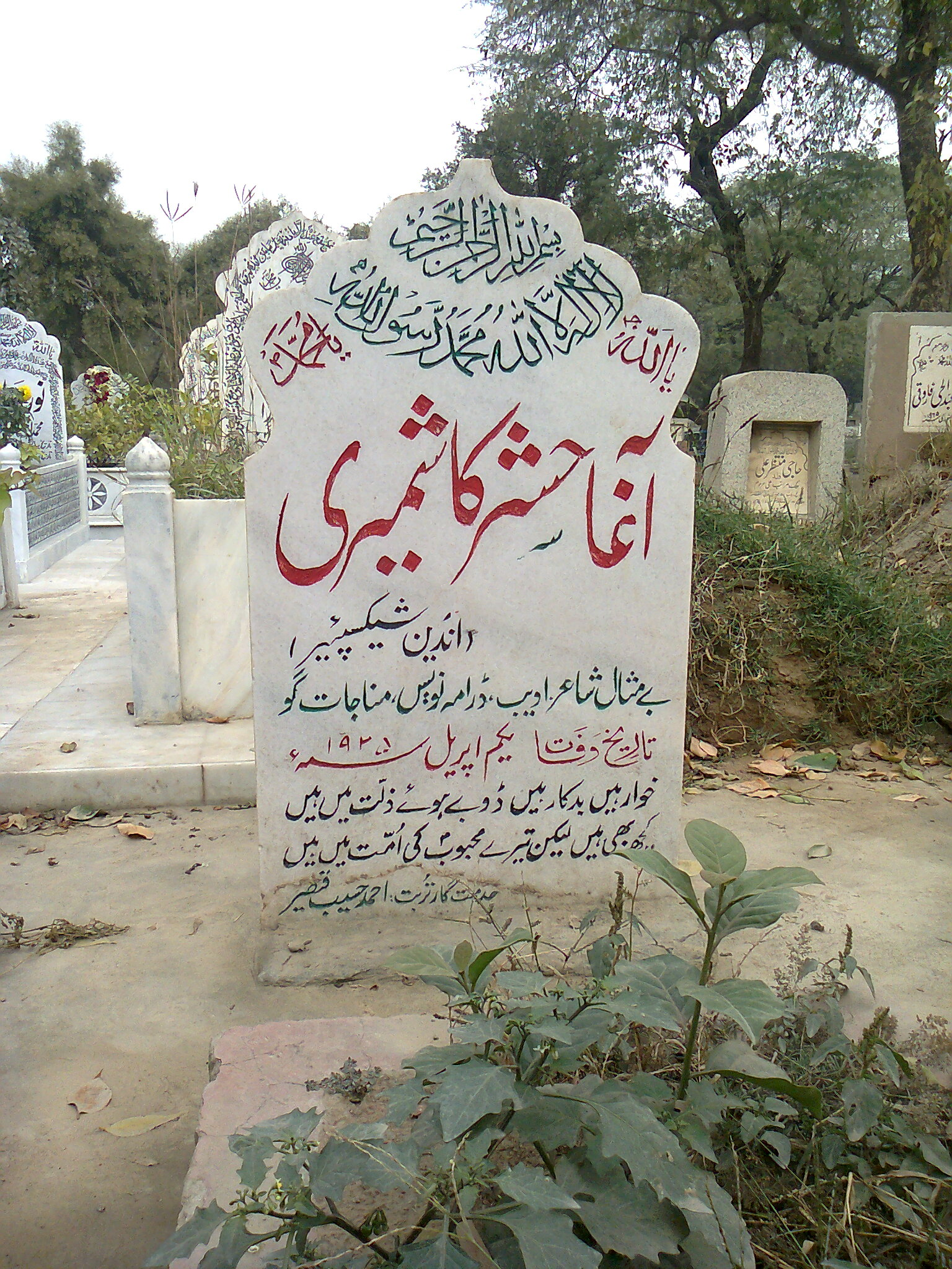 I start with an excerpt from "RAAKH" a novel by Mustansar Hussain Tarar: تو اب جیسا کہ آغا حشر کے ڈراموں میں منظر بدلتا ہے تو منظر بدلتا ہے یہ وہی آغا صاحب ہیں کہ اگر آپ چوک مزنگ سے چو برجی کی جانب سفر کرتے ہیں آپ کے دائیں بائیں آگے پیچھے اہل وطن بھی ایک بھگدڑ کے عالم میں سفر کرتے ہیں تو رکتی اور بمشکل بحال ہوتی ٹریفک کی غلیظ دلدل میں اپنےآپ کو شدید گرمی میں کوستے، یعنی اگر گرمیوں کا موسم ہے تو، جب آپ میانی صاحب قبرستان کی گذرتی قبروں کو دیکھتے ہیں تو وہیں ایک لوح پر موصوف کا نام دیکھتے ہیں ۔۔۔۔۔ اور نقل کتبہ کتبہ باشد ۔۔۔۔ مزار پر انوار جناب آغا سید محمد شاہ صاحب المعروف انڈین شیکسپیر حضرت آغا حشر کاشمیری ٢٨ اپریل ١٩٣٥ ء “ اظہار حقیقت مبنی بر حقیقت “ ایک اک تمثیل تیری وقت کا تھی شاہکار پھر گئی تیری دہائی مچ گئی تری پکار تیری تصنیفات کے اوصاف آئینے بے شمار لکھنے بیٹھوں میں تو صبح حشر بھی ہو آشکار پھر بھی نظم و ضبط سے باہر ہو جولانی تیری بند سے باندھی گئی کب حشر طغیانی تیری منشی دل لکھنوی I read the novel years back and I was in Lahore on couple of occasions and took a stroll along Mazang Chowk - Choburji out skirting Miani Sahab Graveyard with some dedicated onlooking to find the grave of the Indian Drama Giant but could not. Miani Sahab is a jumbo maze of graves and on occasions you don't find what you are so dearly looking for. It was a couple of weeks back that WE were in Lahore and we went back to Miani Sahab to rehearse the stroll mentioned in the above excerpt. The luck had it and the very first group of undertakers in the graveyard we met indicated the grave just 3 - 4 yards away from where we were standing. Things had changed from the times of Mustansar Sahab's description and so was the gravestone. I could not find Munshi Dil Lakhnavi's Qata' e Tareekh e Wafaat, but the gravestone bore a somber look with all the vigor and vibrance of Agha Sahab's roaring dialogues absorbed smoothly into an earthen pile of dust. We paid homage to a drama great of his time whose legacy goes on. Rest in Peace Agha Sahab.